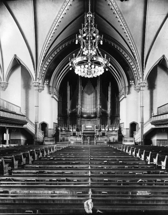 Photograph, Interior St. James Methodist Church, Montreal, QC, about 1892, Wm. Notman & Son, Silver salts on glass - Gelatin dry plate process - 25 x 20 cm